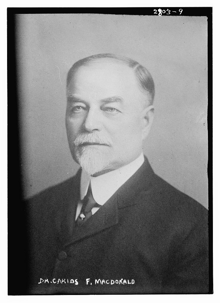 Dr. Carlos Frederick MacDonald Bain News Service, publisher, [between ca. 1910 and ca. 1915]. 1 negative : glass ; 5 x 7 in. or smaller. Notes: Title from unverified data provided by the Bain News Service on the negatives or caption cards. Forms part of: George Grantham Bain Collection (Library of Congress). Format: Glass negatives. Repository: Library of Congress, Prints and Photographs Division, Washington, D.C. 20540 USA, General information about the Bain Collection is available at Persistent URL: Call Number: LC-B2- 2803-9